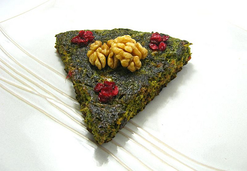 Kuku Sabzi, topped with barberries and walnuts (Original version of the file Kookoo-sabzi.jpg)